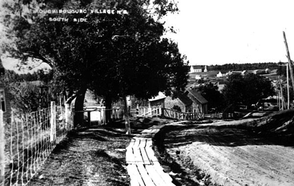 Postcard of road through Kouchibouguac, south side, ca. 1920. Provincial Archives of New Brunswick number P525-5.